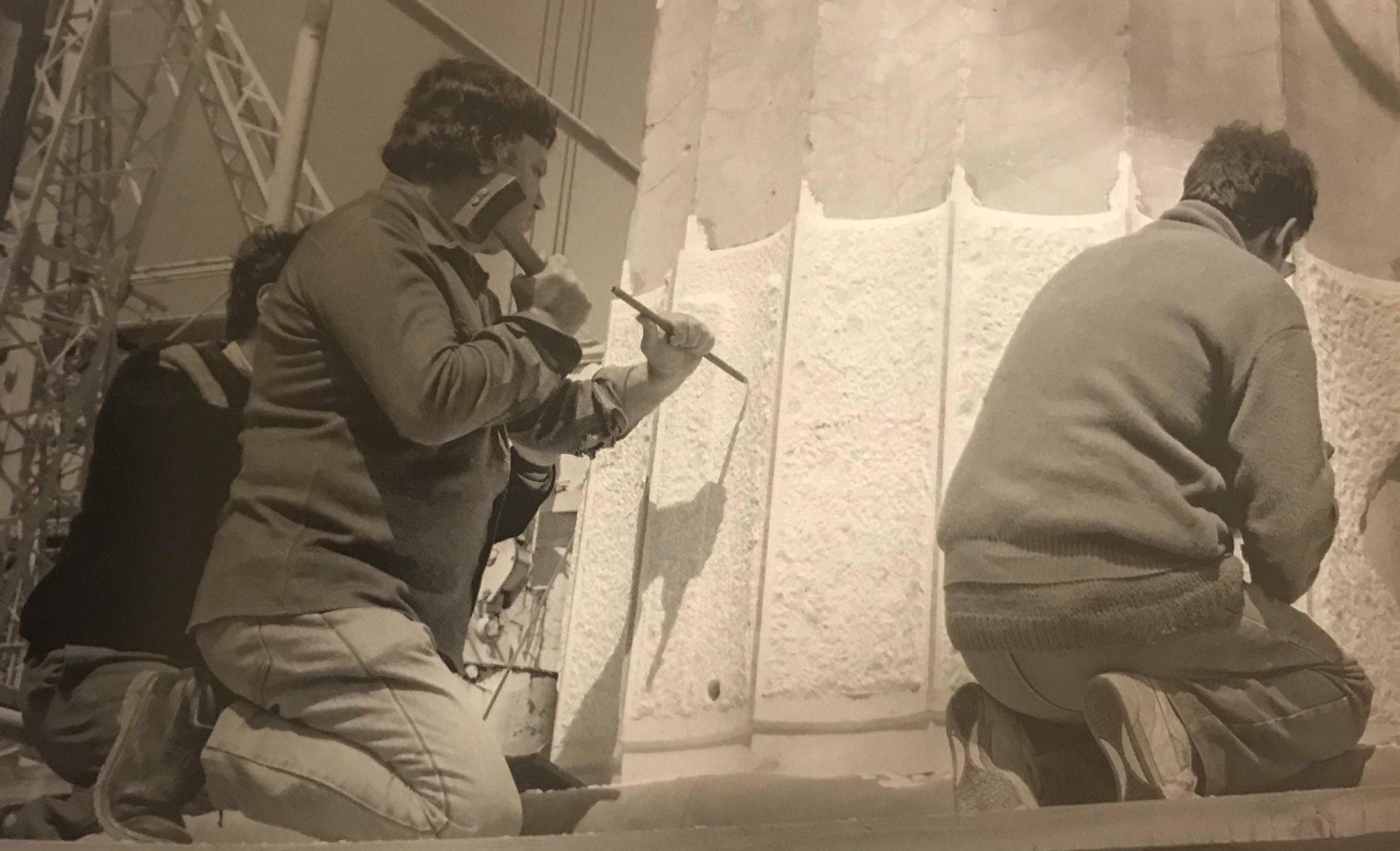 Restoration of the Acropolis monuments: The Parthenon. The treatment of the first drum filling from the fifth column of the south colonnade (1993)